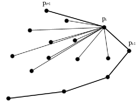 Jarvis algorithm picture (computional geometry)